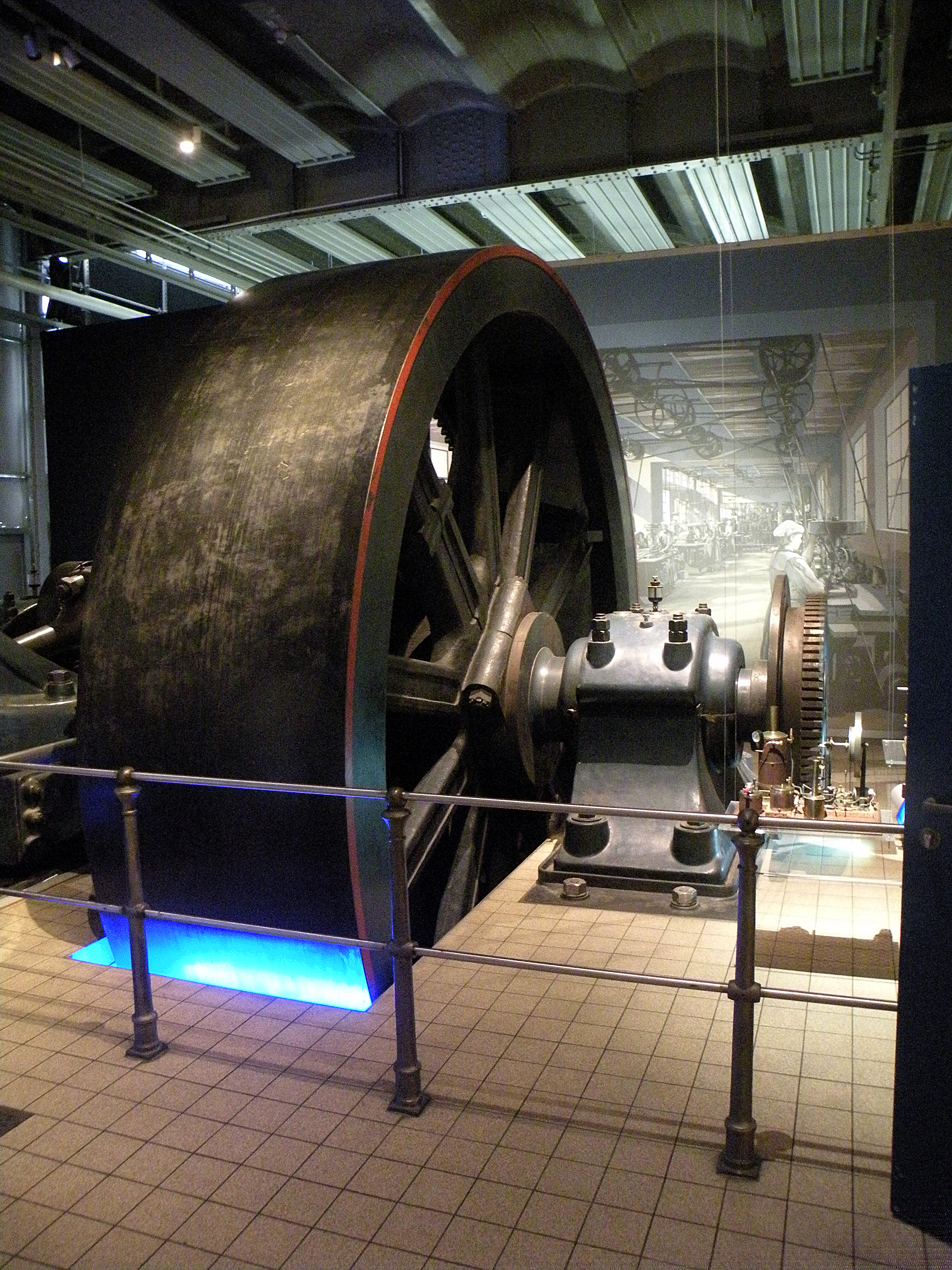 Flywheel of a factory steam engine